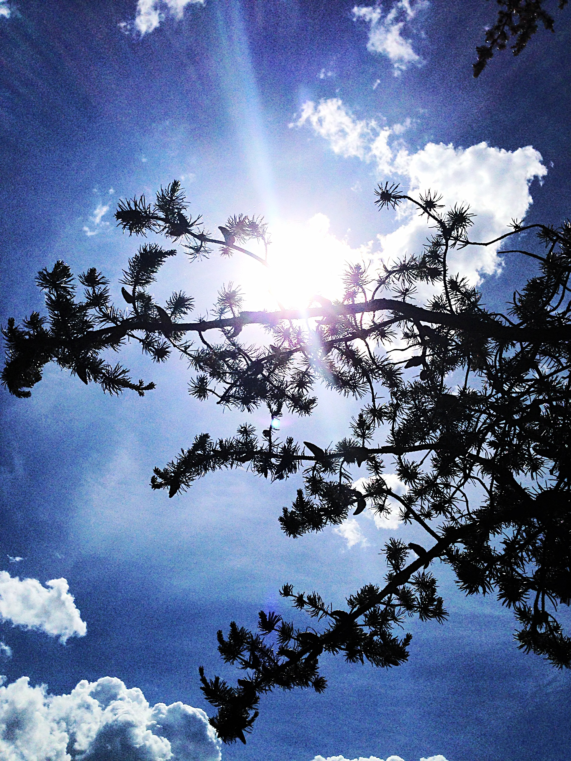 Honorable Mention Bright Sky - Haylee Snyder